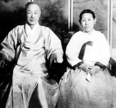 parent's of Yun Bo-seon, 4th President of South korea